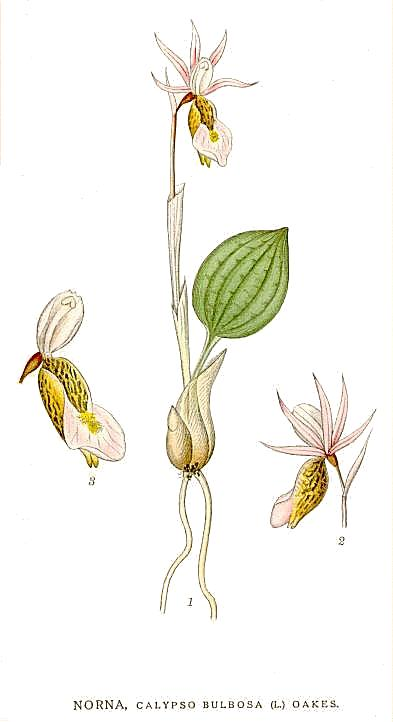 Original Description Norna, Calypso bulbosa (L.) Oakes